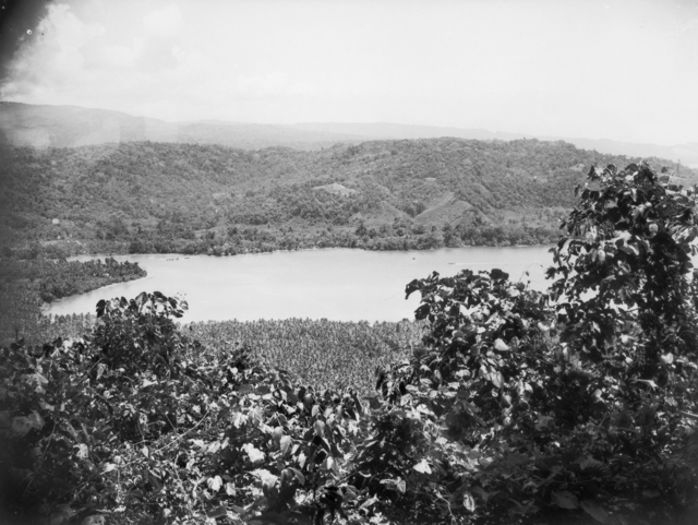 A view of the Finschhafen area, September 1943. Sattelberg sits in the left hand corner of the scene.